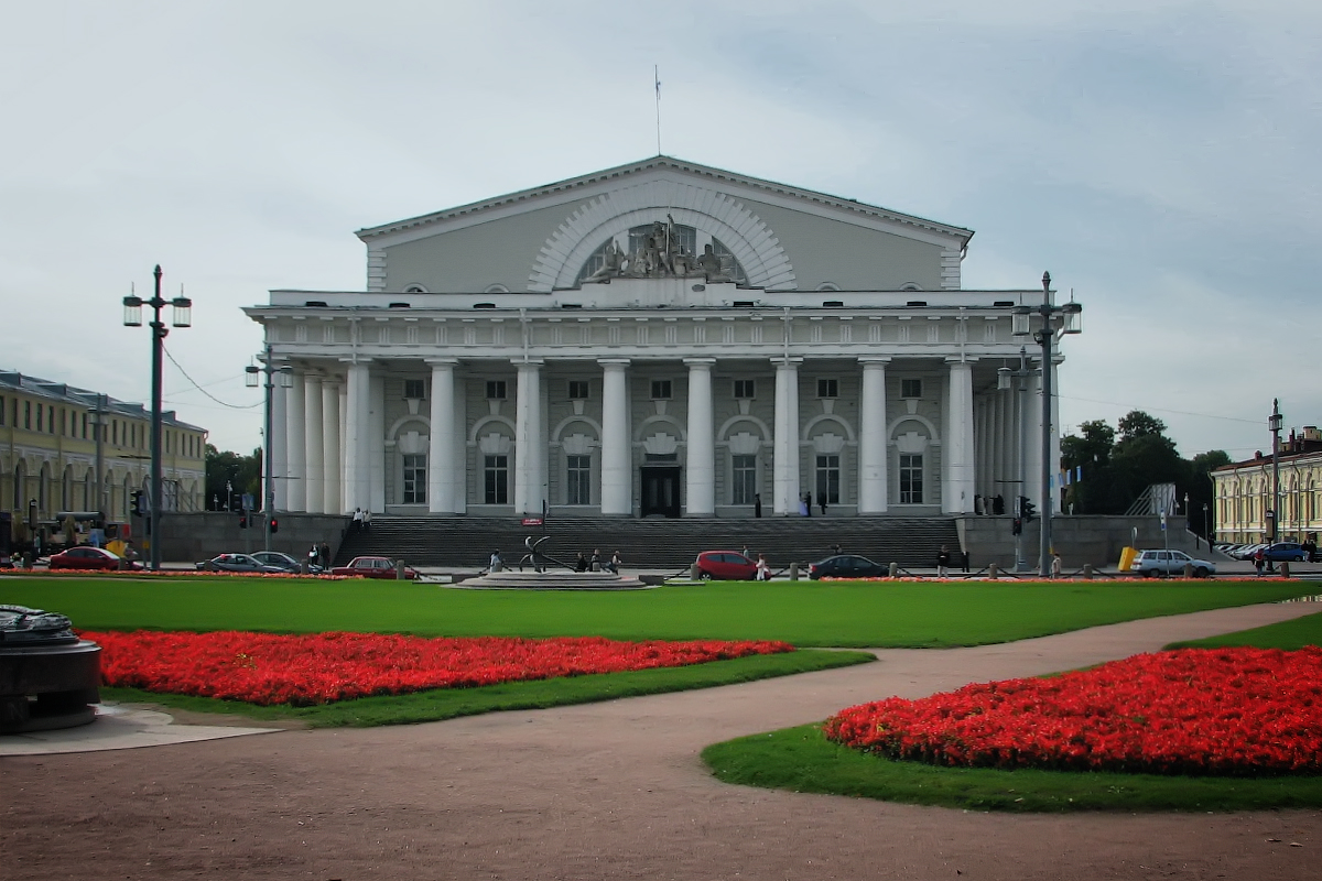 Central Naval Museum is one of the oldest Russian museums and one of the world's largest naval museums. It is located in St. Petersburg.